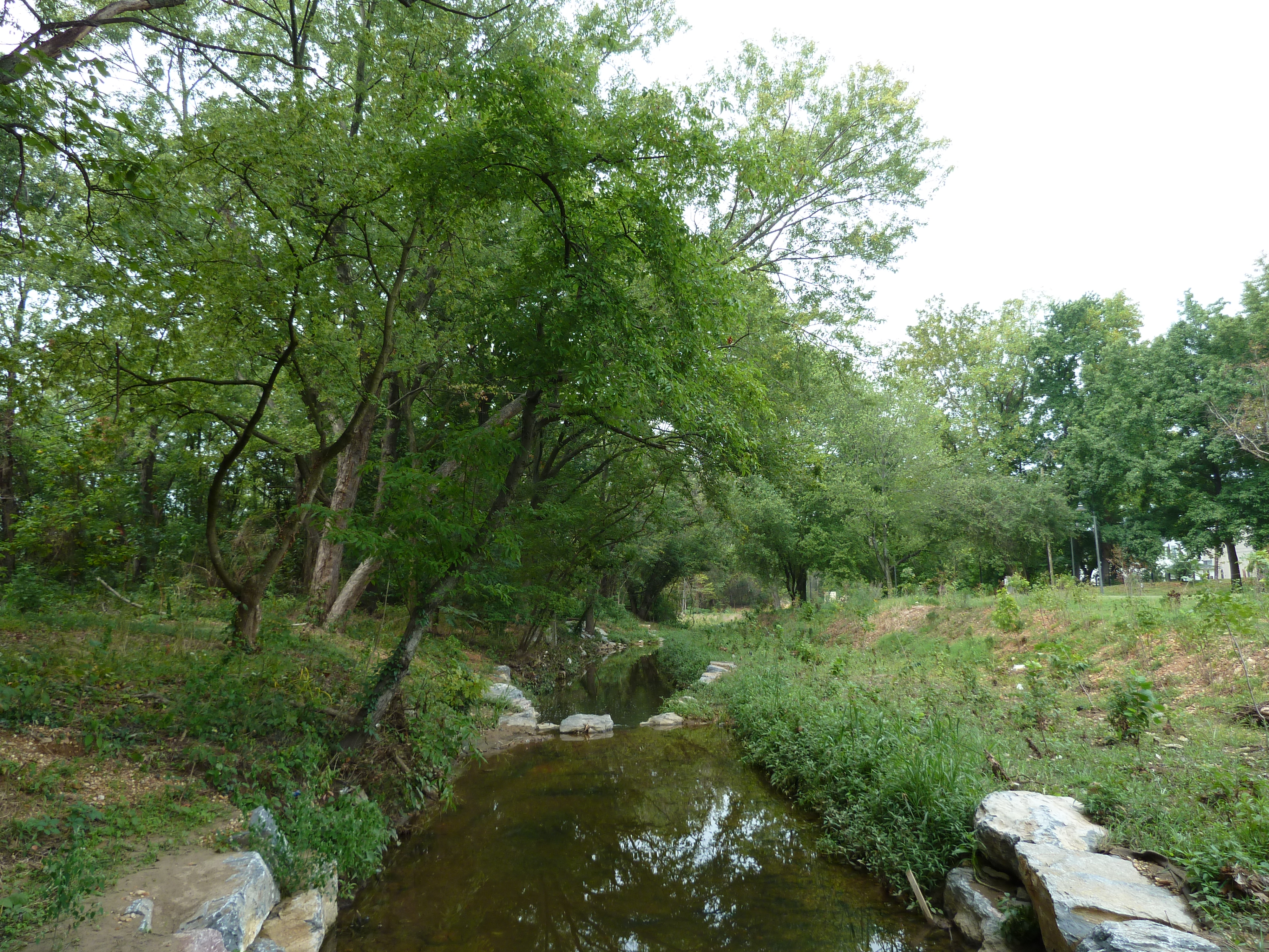 Watts Branch, Washingotn, D.C., now provides streamside (riparian) and instream habitat for local fish and wildlife in the Anacostia River watershed. Photo by Mark Secrist, U.S. Fish and Wildlife Service